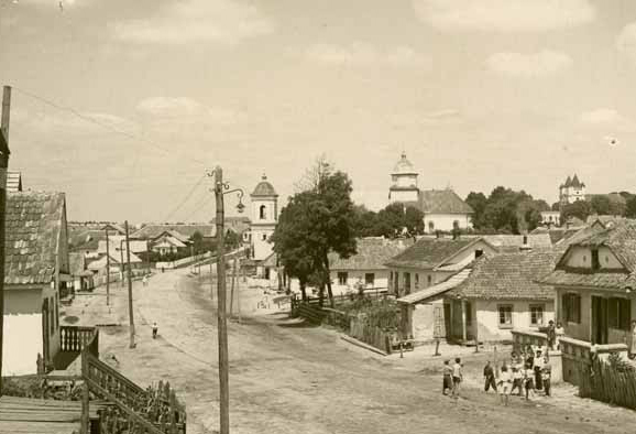 View in Shumske.